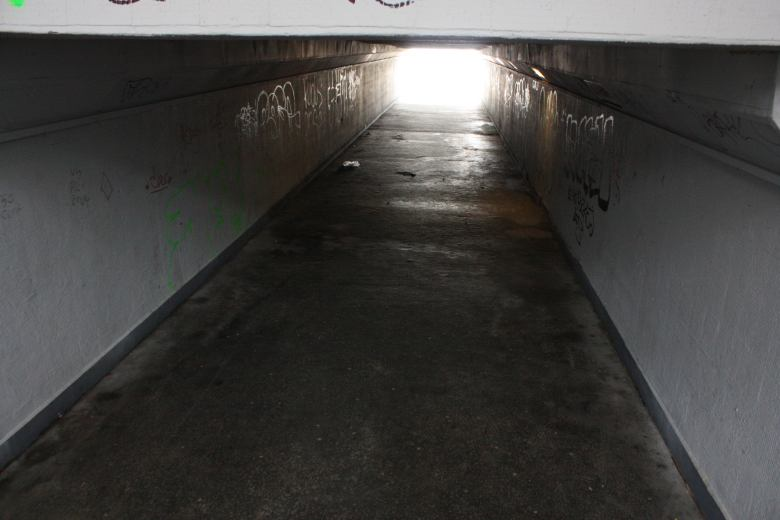 Gymnázium Brno-Řečkovice, underpass